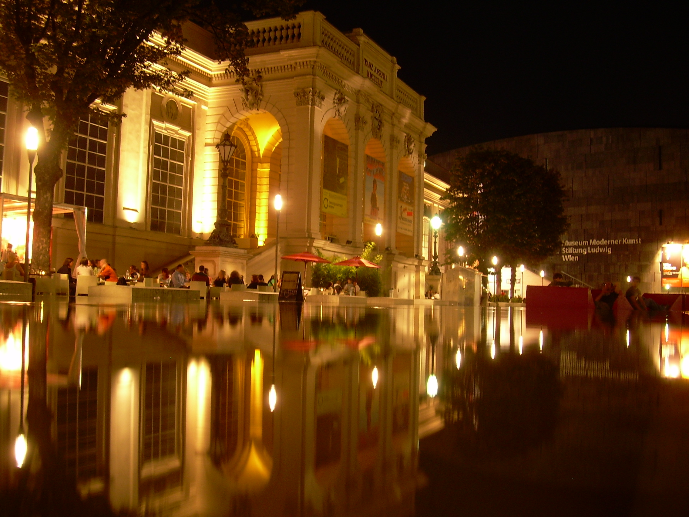 Austria, Vienna, Kunsthalle